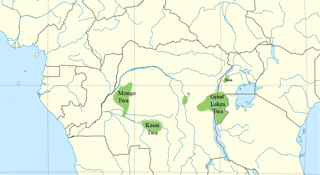 Twa populations per Hewlett & Fancher